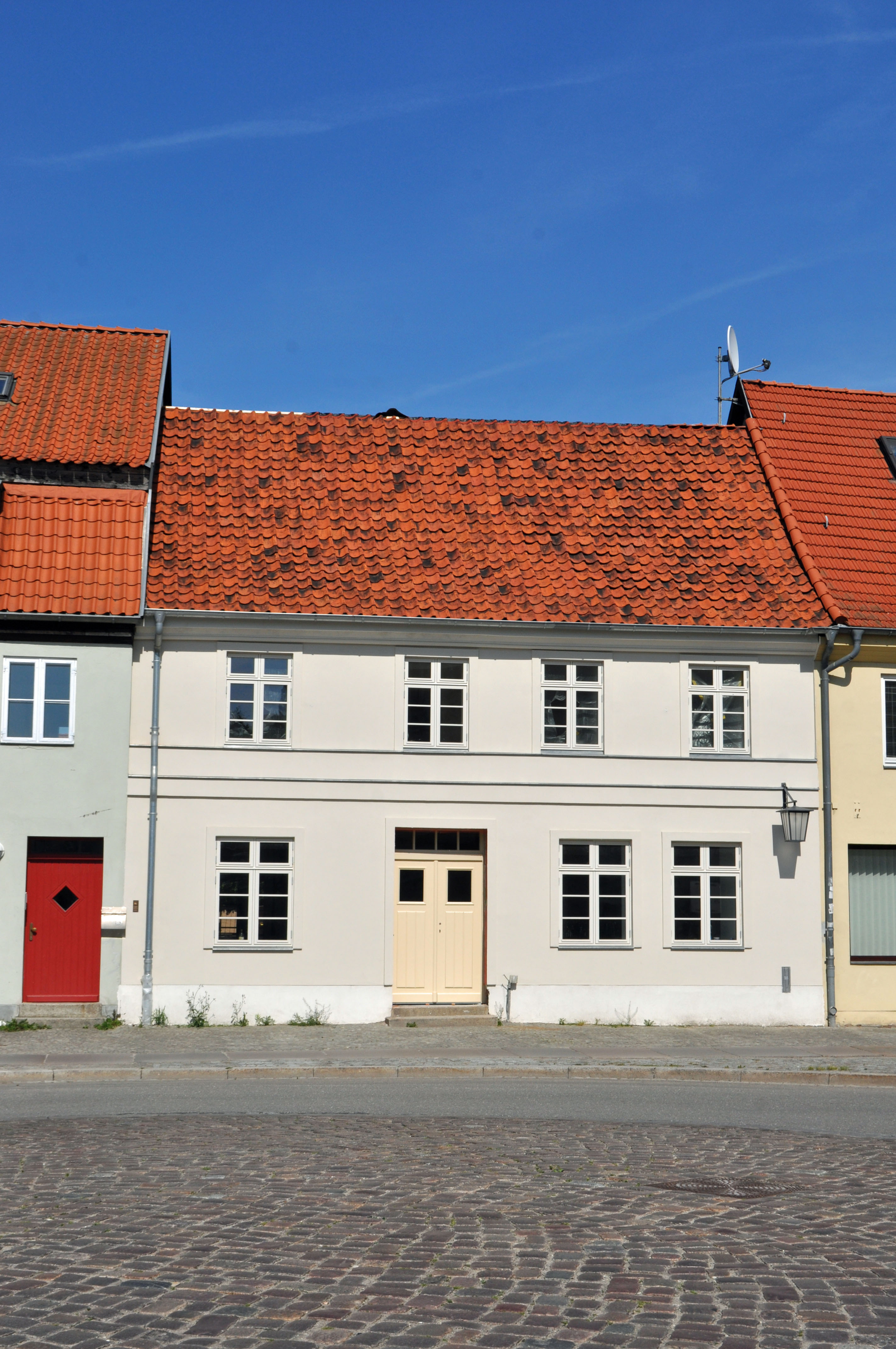 Stralsund, Wasserstraße 45 This is a photograph of an architectural monument.